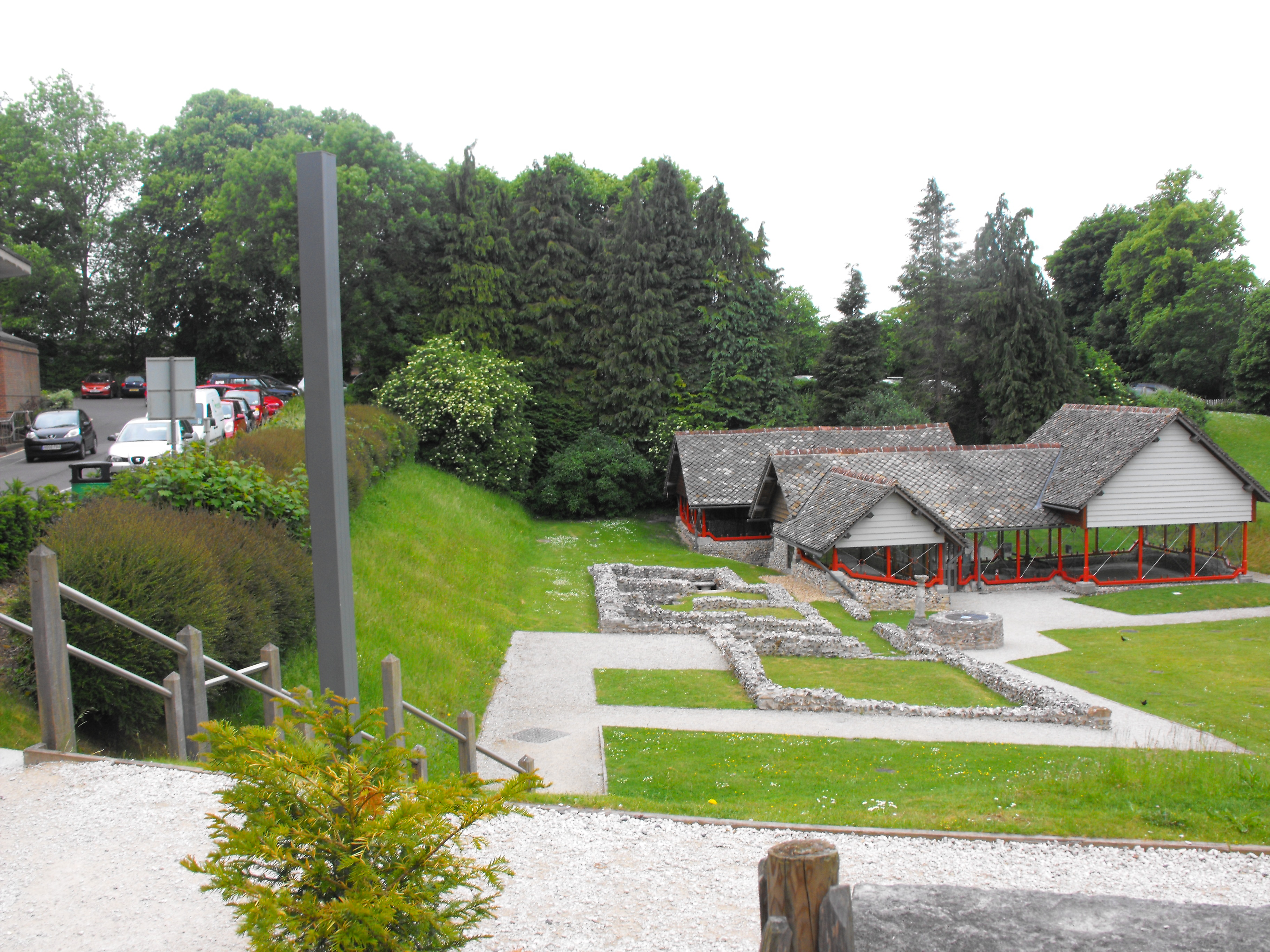 Roman house in Dorchester